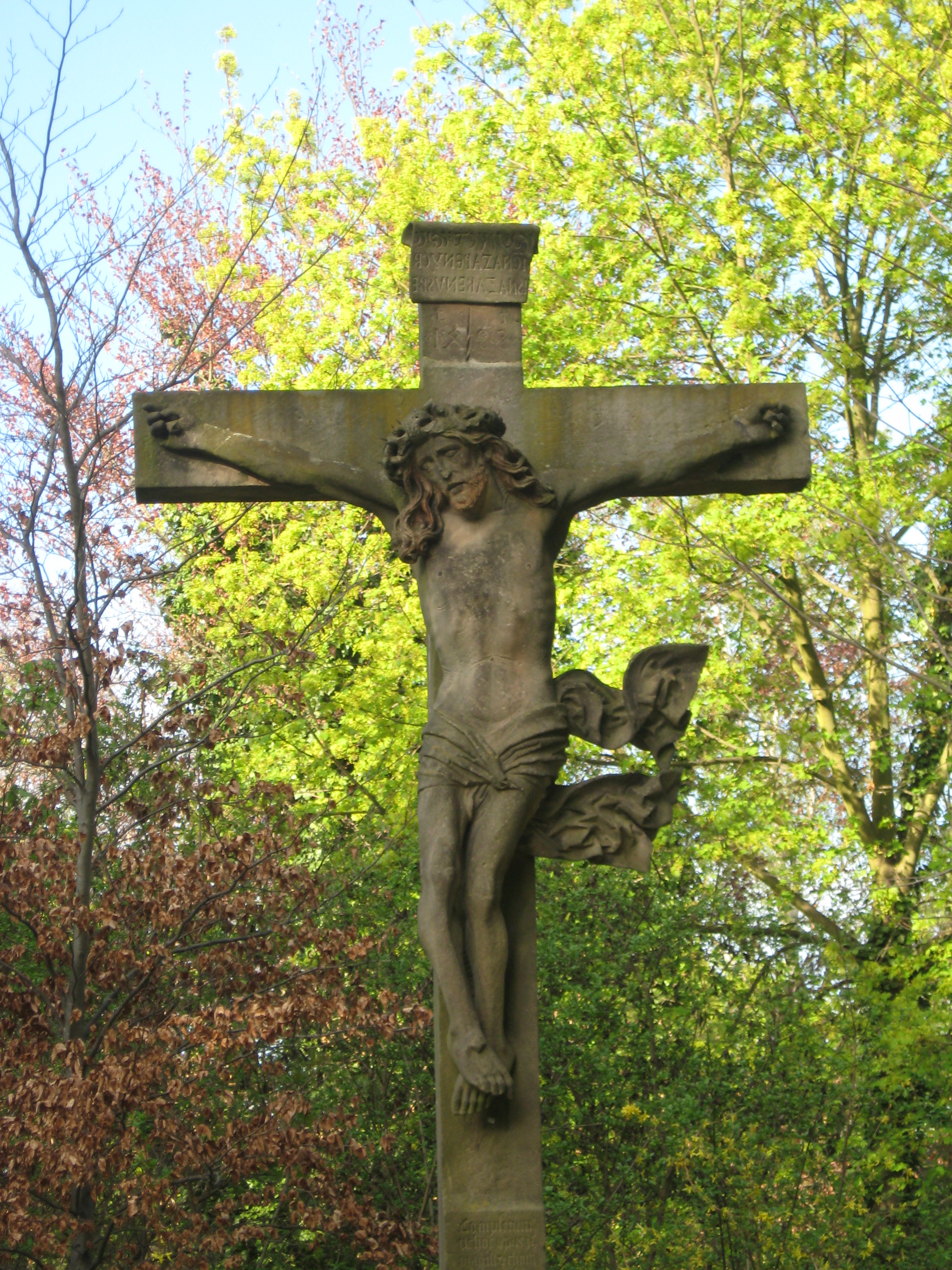 Hauptfriedhof Hochheimer Höhe, Worms, Germany